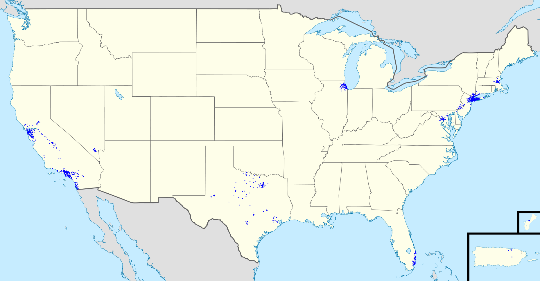 Footprint of Citibank. Cities with more than one branch have progressively larger points.